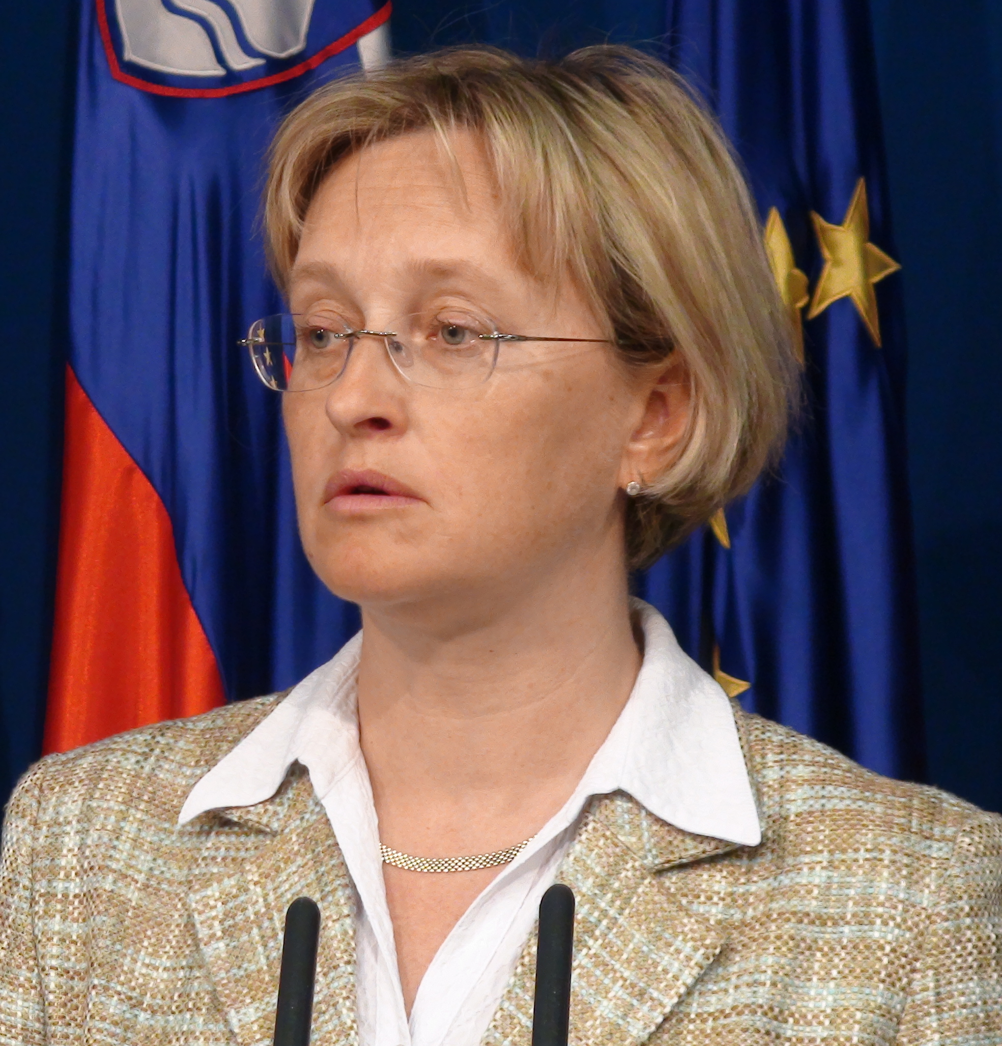 Mateja Vraničar in 2011